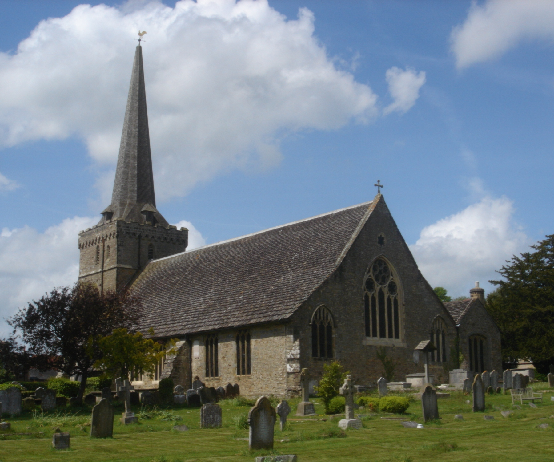 Holy Trinity Church, Church Street, Cuckfield, District of Mid Sussex, West Sussex, England. The parish church of Cuckfield; listed at Grade I by English Heritage (IoE Code 302923)